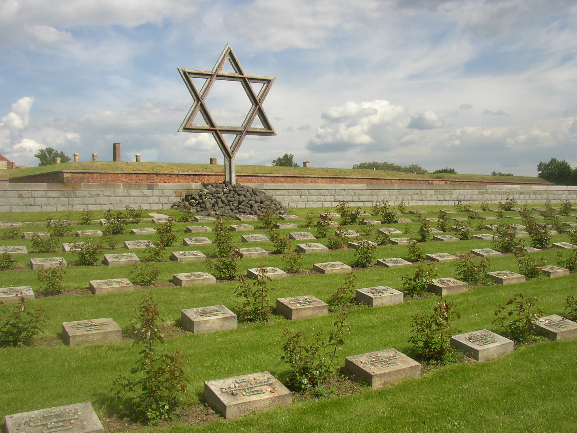 Memorial Cemetery in front of the Little Fort in Terezín, Czech Republic